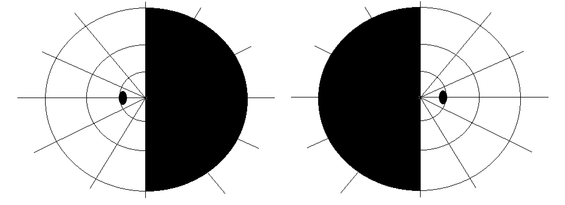 Goldmann visual field record showing a heteronymous hemianopia